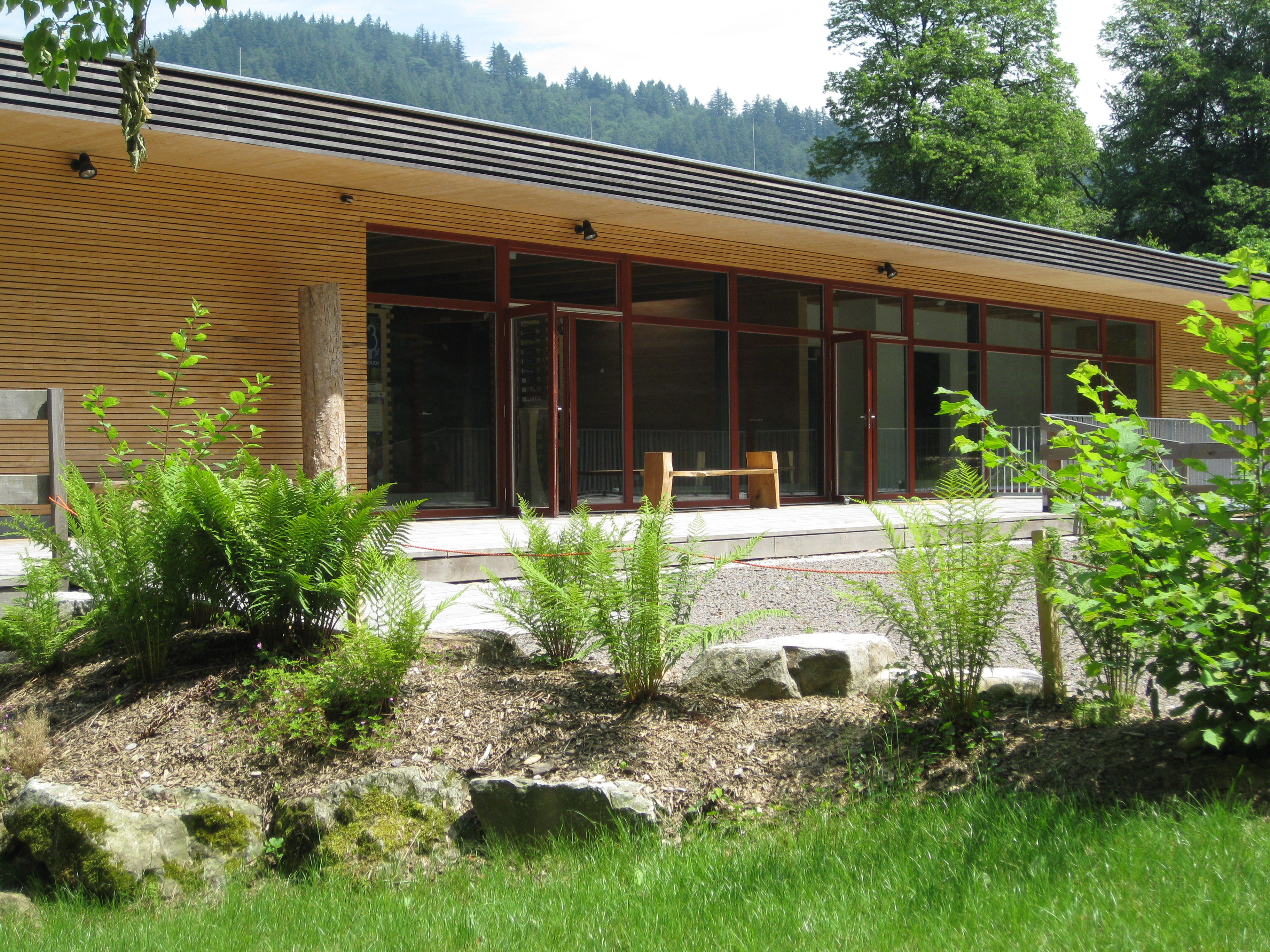 The rear of the building